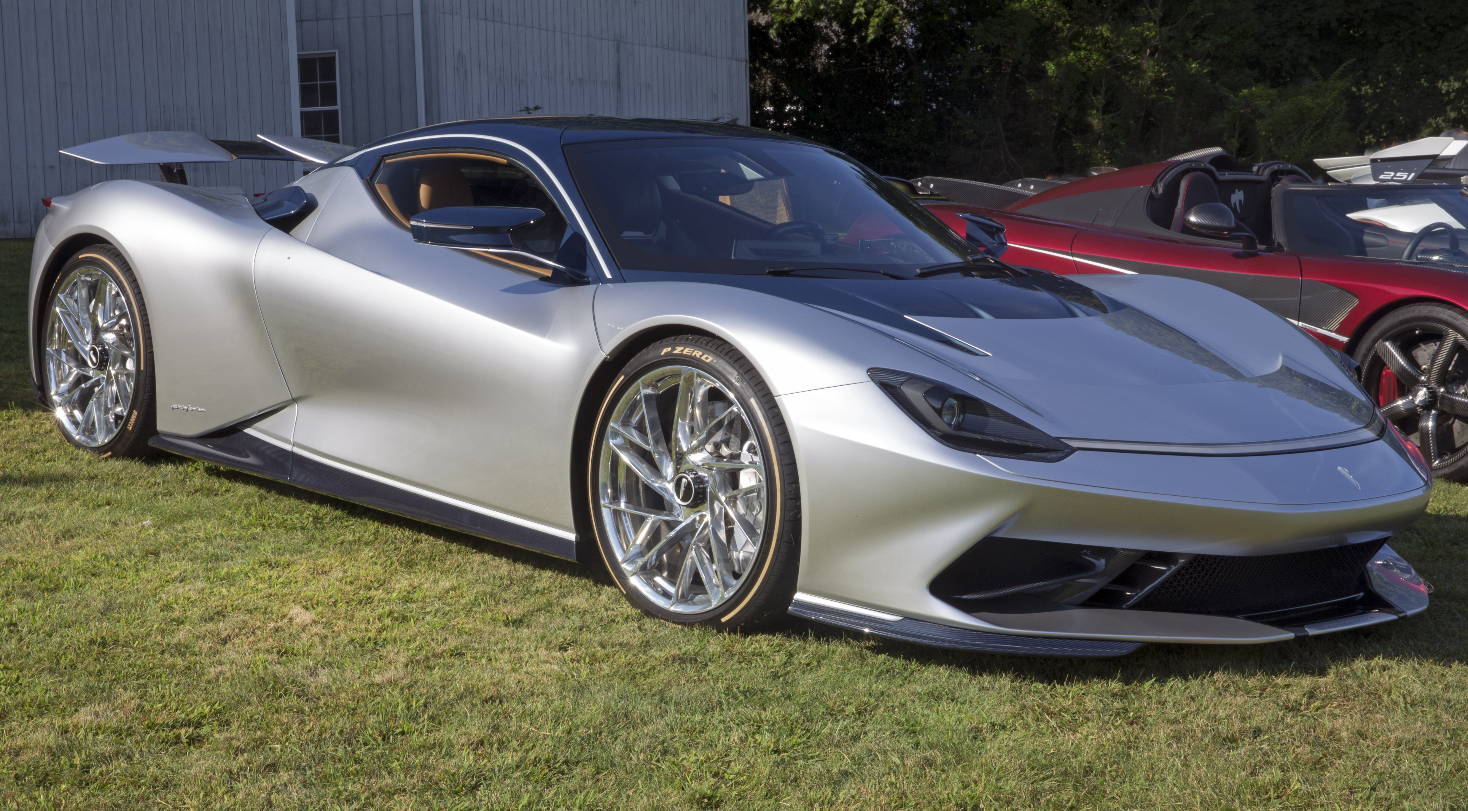 A Pininfarina Battista at the 2019 Bridgehampton Cars & Coffee.